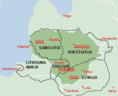 Ethnographic regions of Lithuania. Legend: White lines - current country borders Darker zone - territory of modern day Lithuania Black lines - borders of Lithuanian ethnographic regions Large red dots with words - cities over 100'000 inhabittants Small red dots with names - cities with less than 100'000 inhabitants, marked only if they are considered capital of ethnographic region. Underlined names of cities - the city is considered capital of ethnographic region